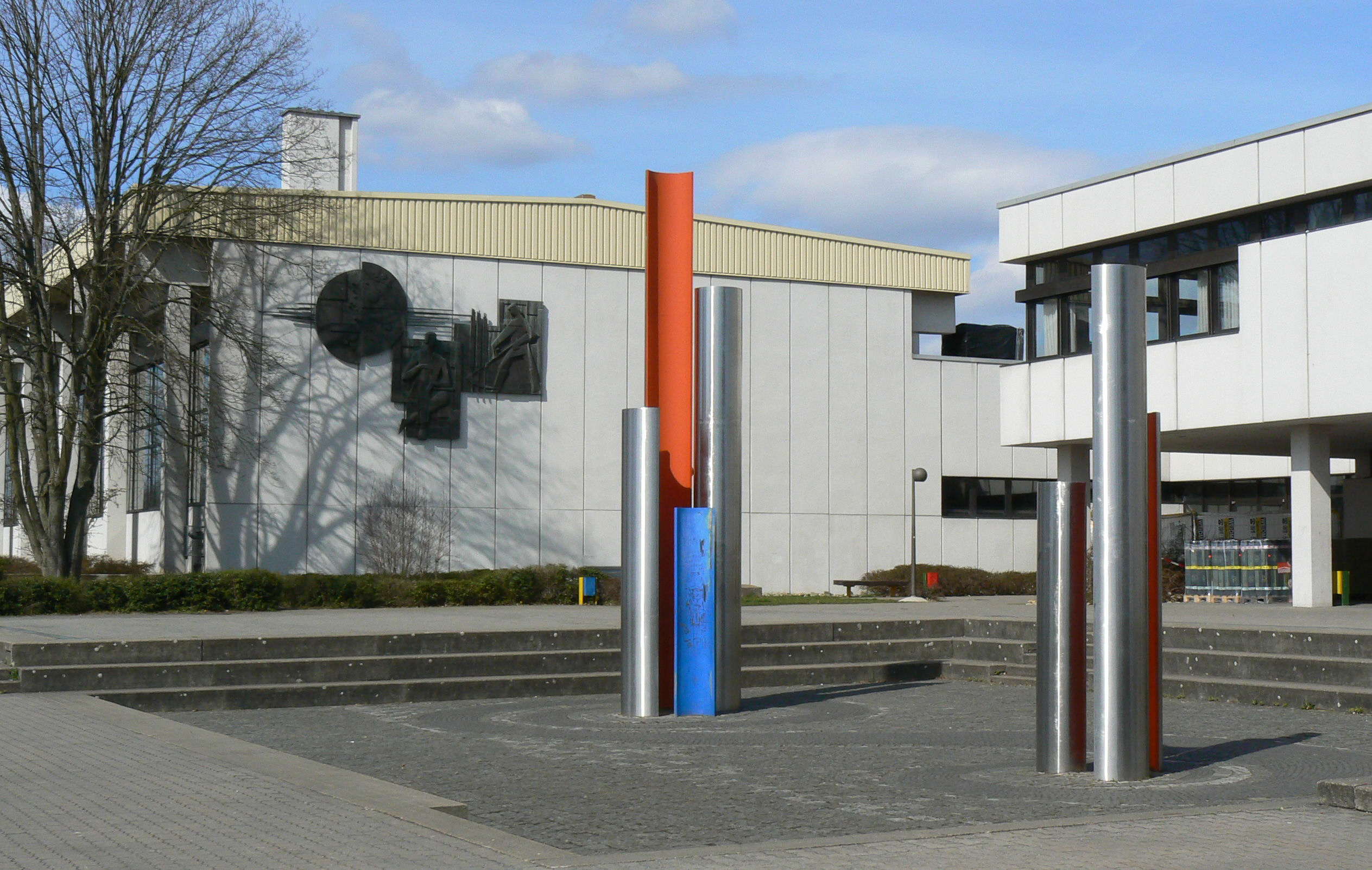 comprehensive school in Hollfeld, Germany